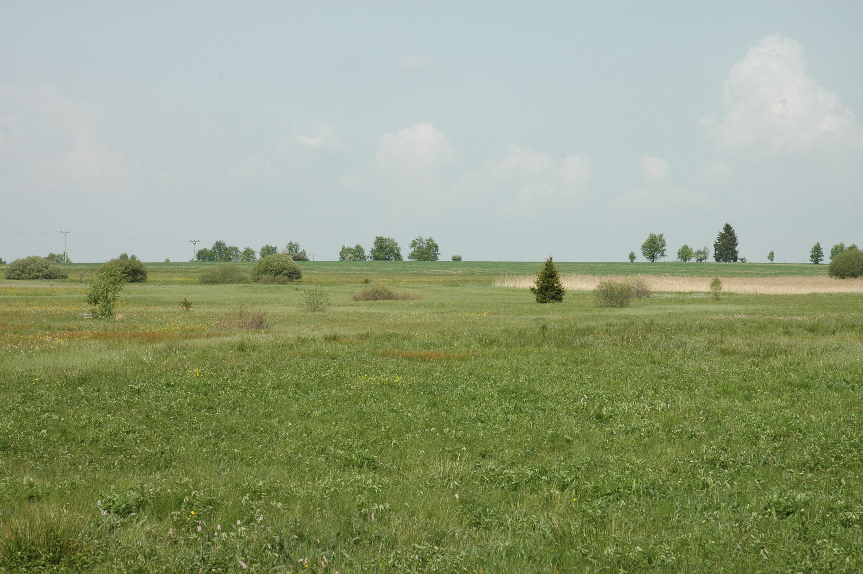 Natural monument Bahna in Chrudim District, Czech Republic